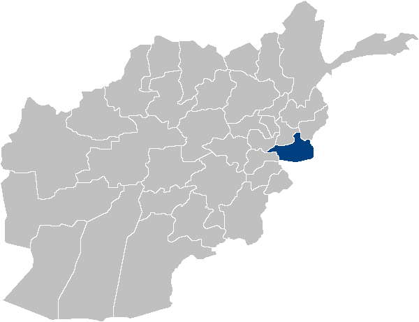 Location map for Nangarhar Province in Afghanistan. Original map source: Image:Afghanistan_provinces_blank.png